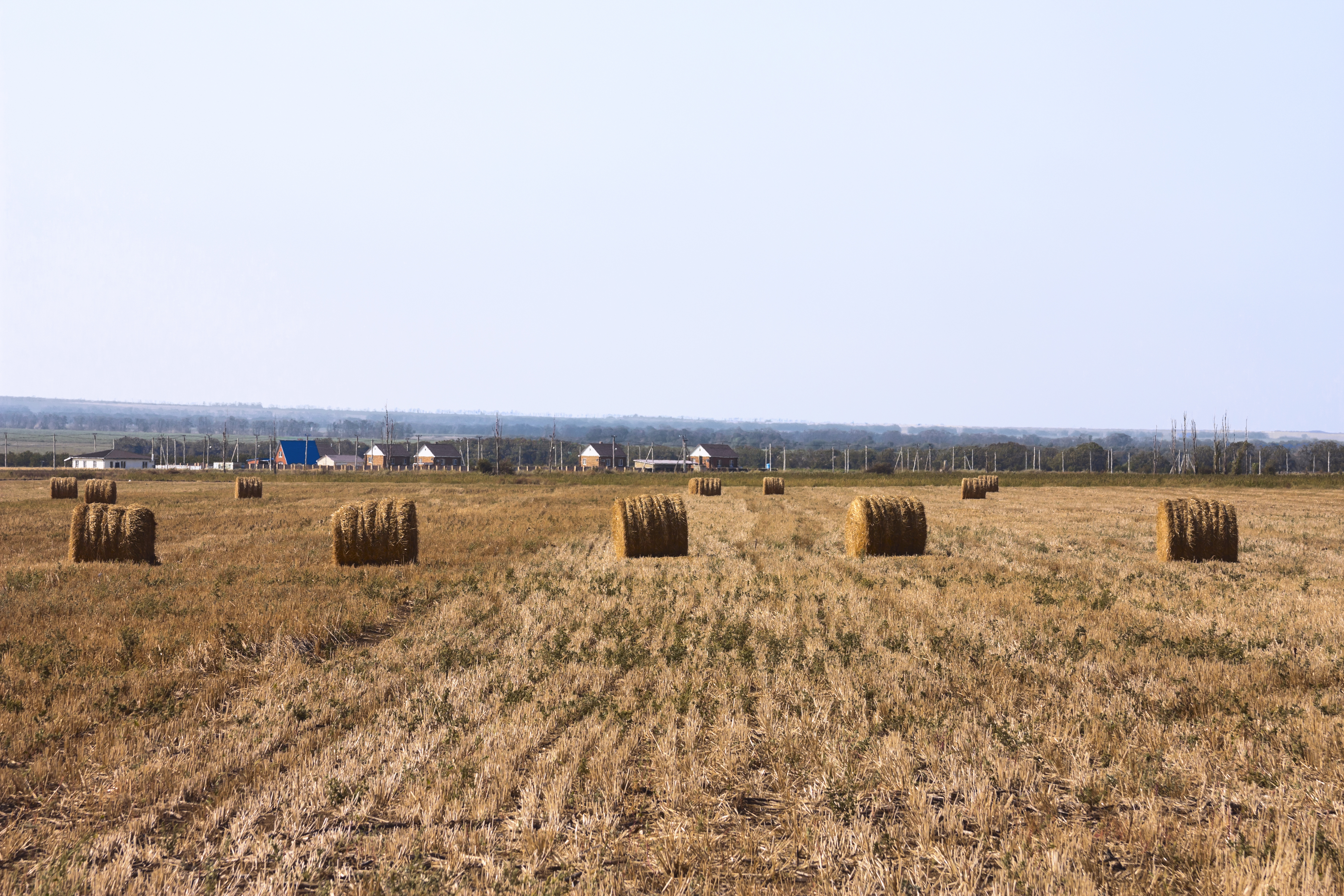 September Kuchugury. village Kuchugury: Temryuk district, Krasnodar region